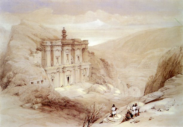 El Deir, Petra. Pencil, watercolor and bodycolor.